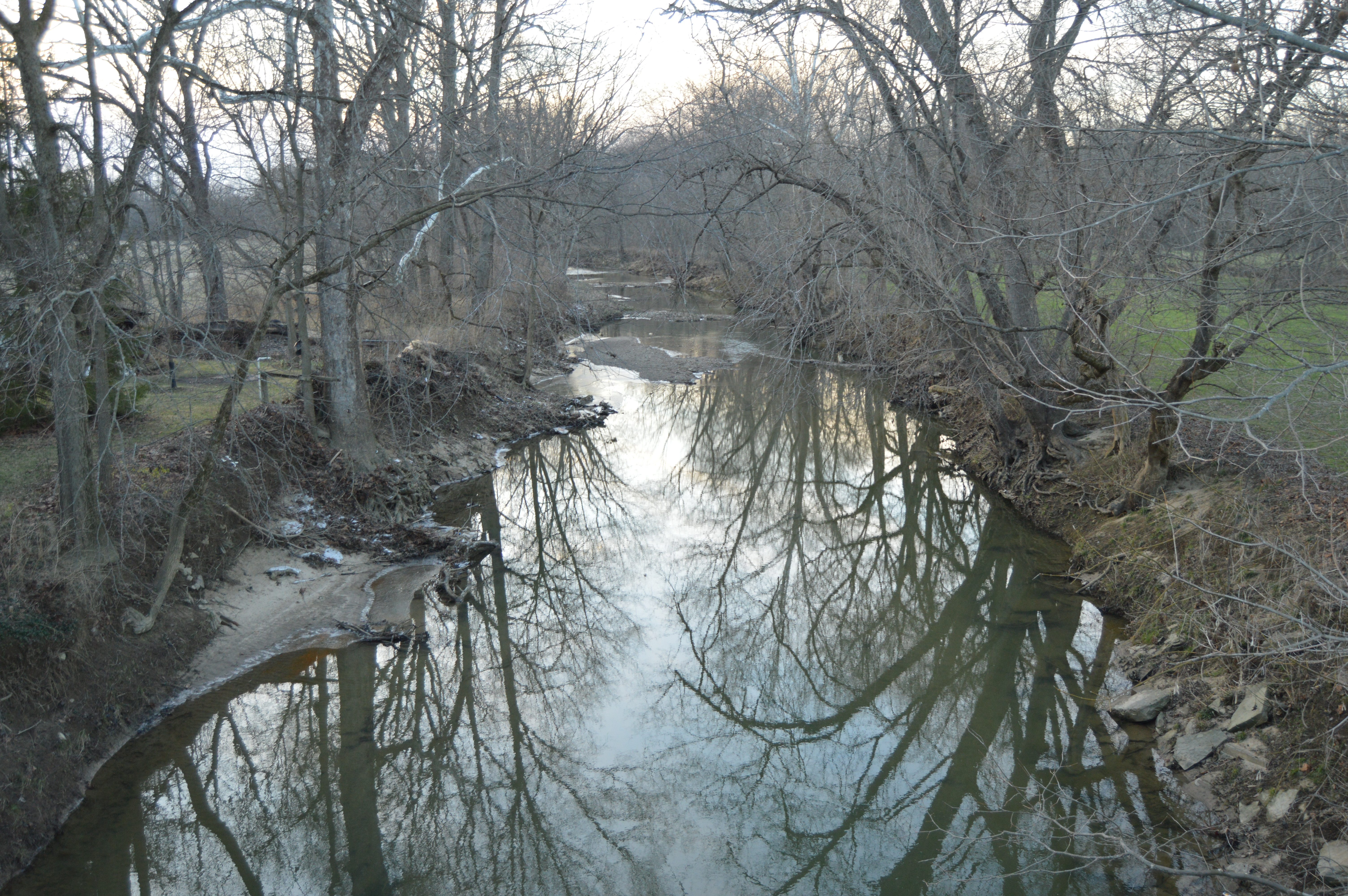 Looking down White Oak Creek from the Sardinia-Mowrystown Road bridge, just north of Sardinia, in far northern Washington Township, Brown County, Ohio, United States.